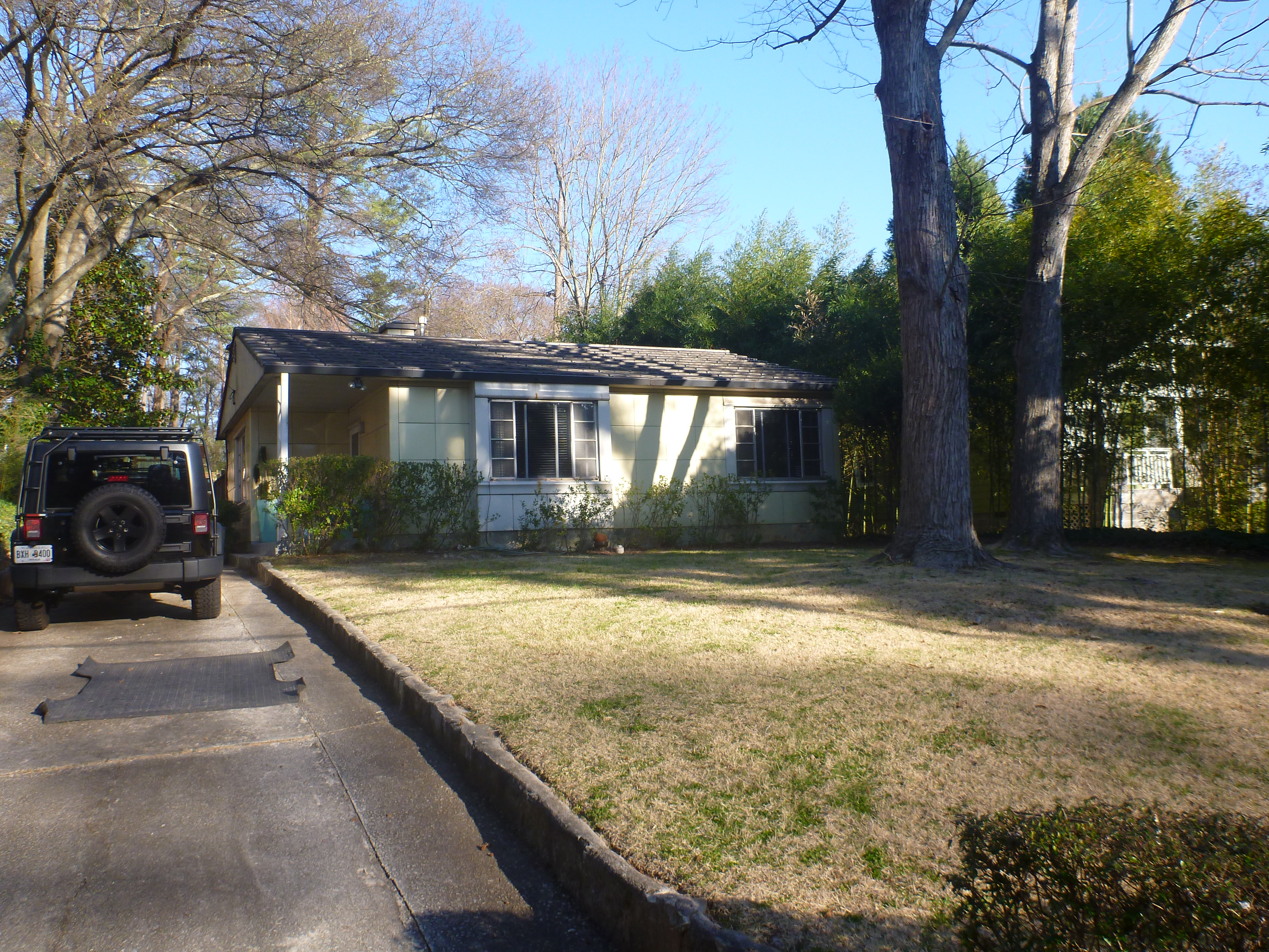 Neville and Helen Farmer Lustron House located in Decatur, GA.